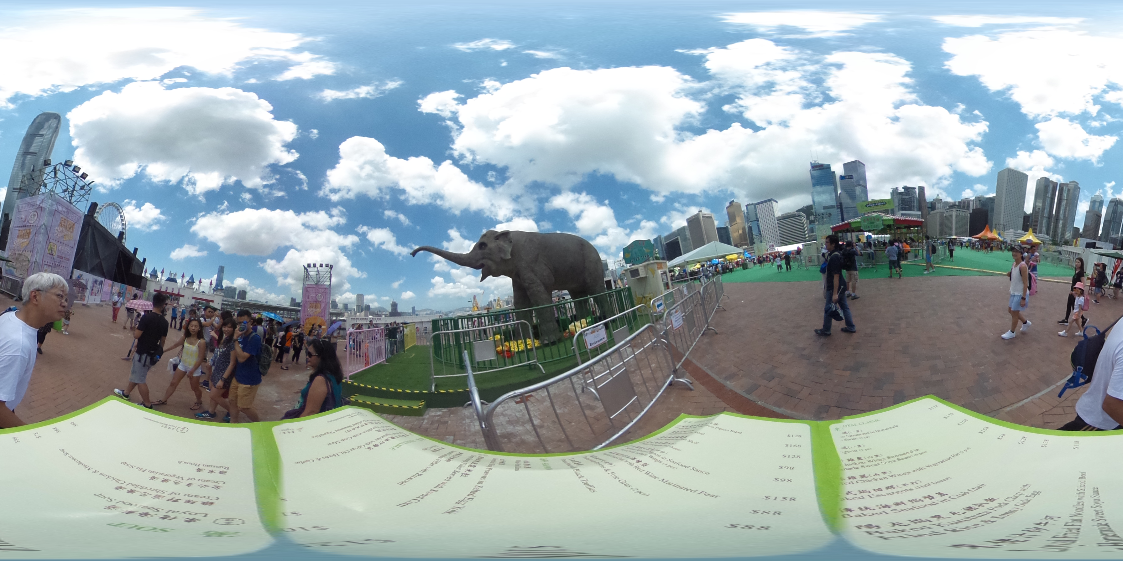 Lai Yuen 荔園 Super Summer 2015 at Central Waterfront Promenade Park, Central, Hong Kong